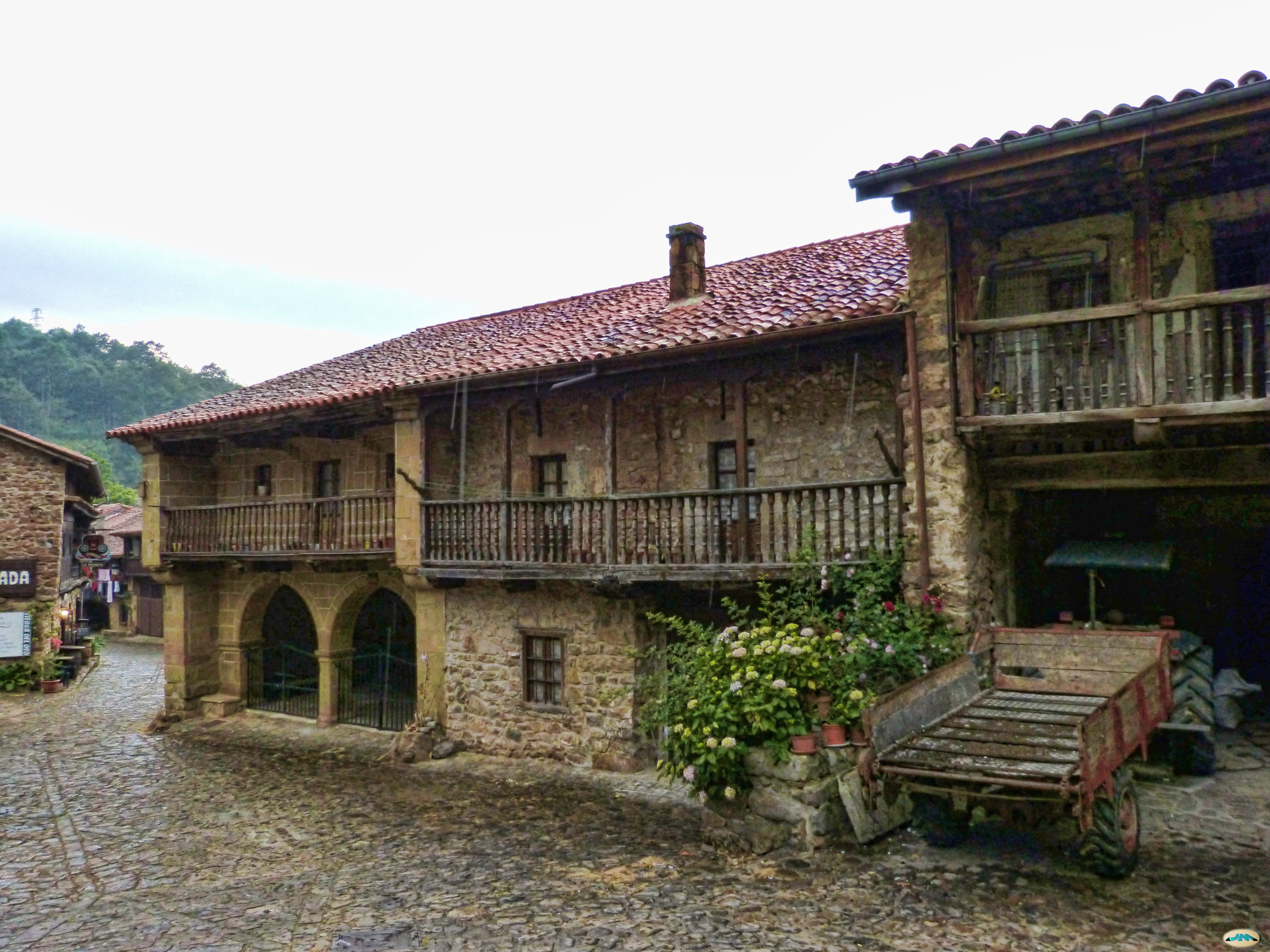 Houses and streets of Barcena Mayor (Cantabria).